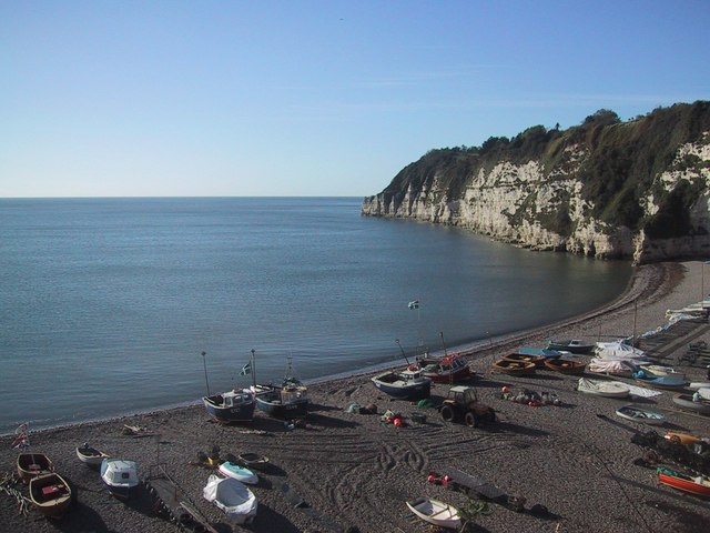 Beach at Beer